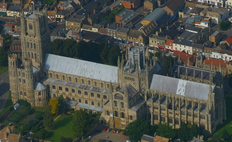 Photograph of Ely Cathedral taken from the air.